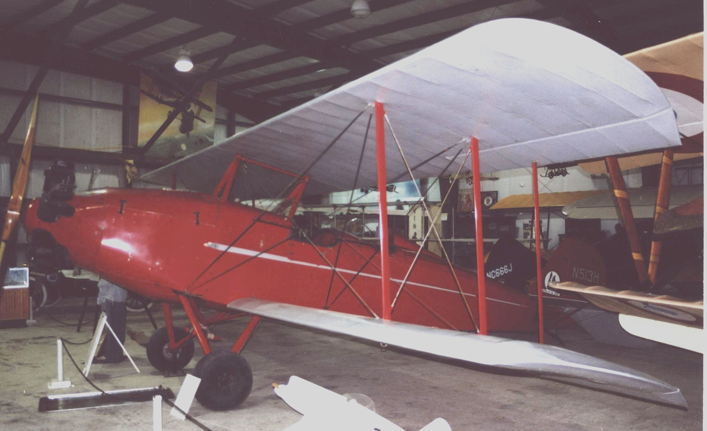 American Eagle A-129 biplnne of 1929 at the Old Rhinebeck Museum, NY State